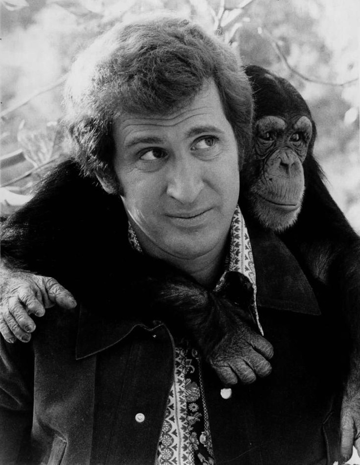 Publicity photo of American actor, Ted Bessell and chimpanzee promoting the CBS television series Me and the Chimp.